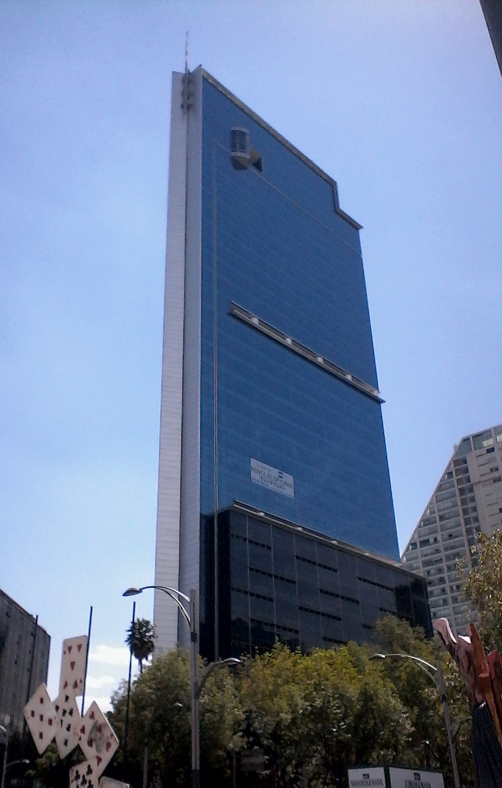 Torre Punta Reforma 2016